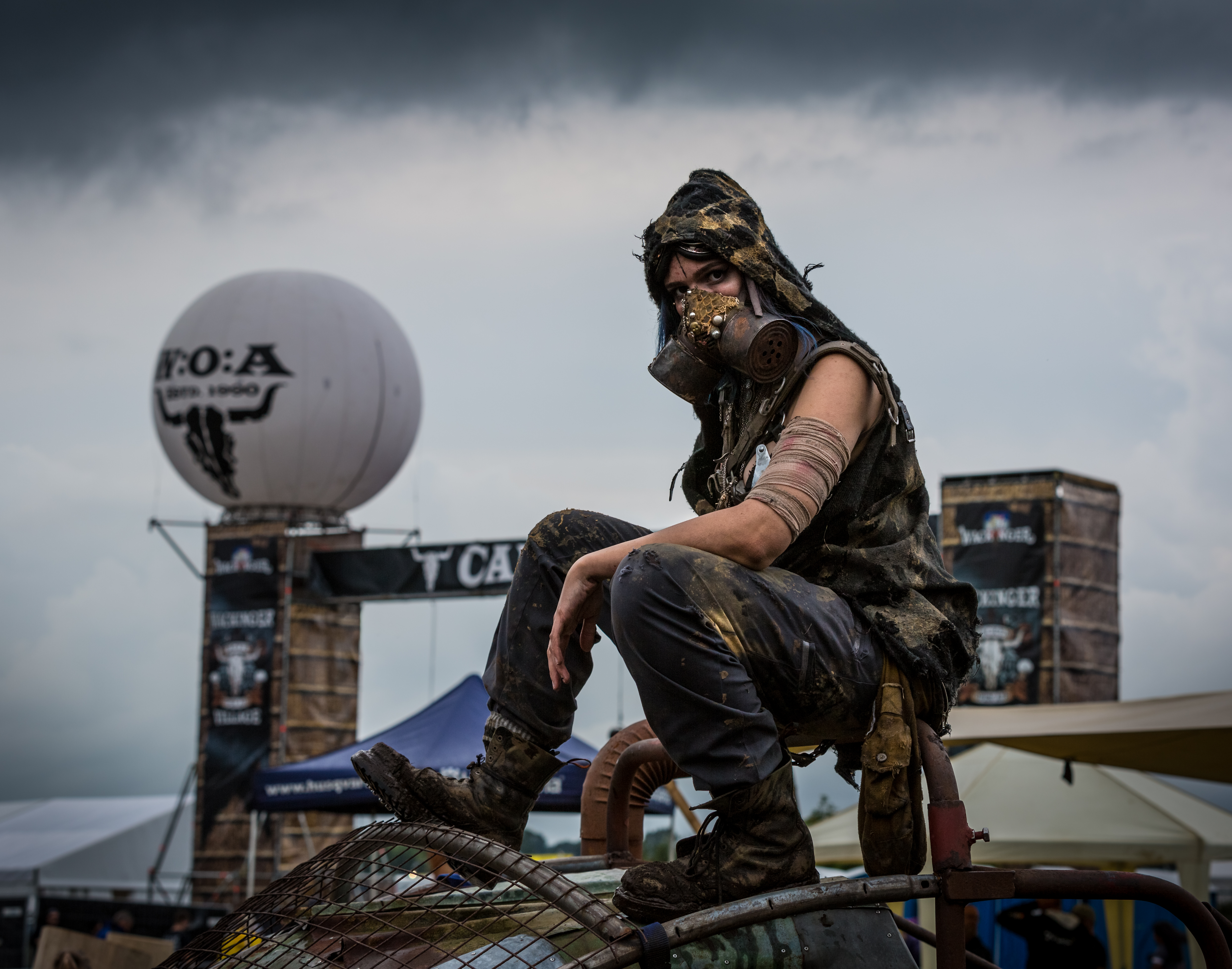 Festivalgelände Wasteland - Wacken Open Air 2016